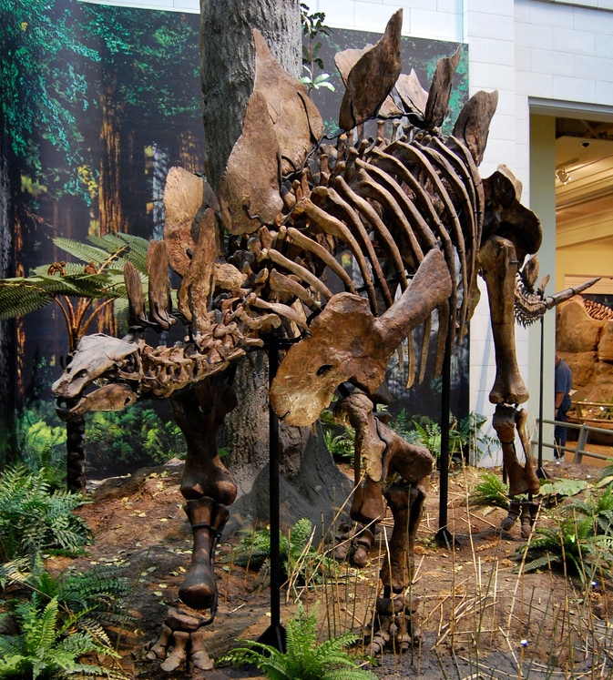 Stegosaurus ungulatus, Carnegie Museum of Natural History